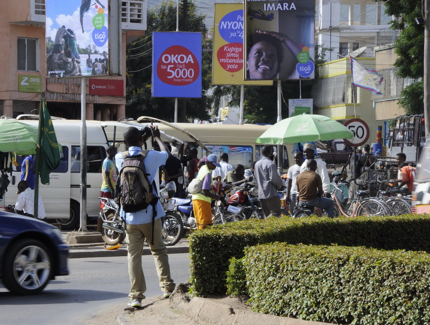 A close view of Morogoro downtown,Tanzania.This photo was taken by Prof.Chen Hualin.